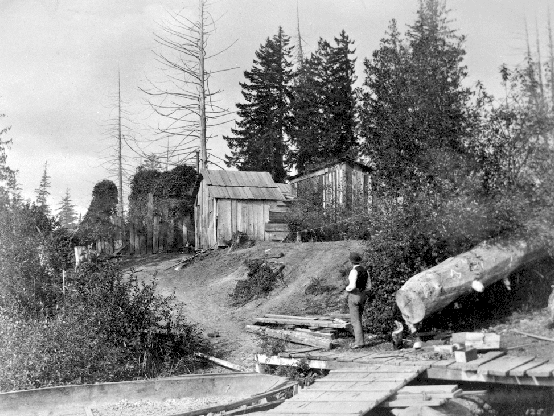 The photograph was taken in 1886 and found in the BC Archives.